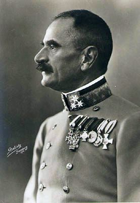 Károly Tersztyánszky of Nádas, 1854-1921, Coloner General of Austria-Hungary